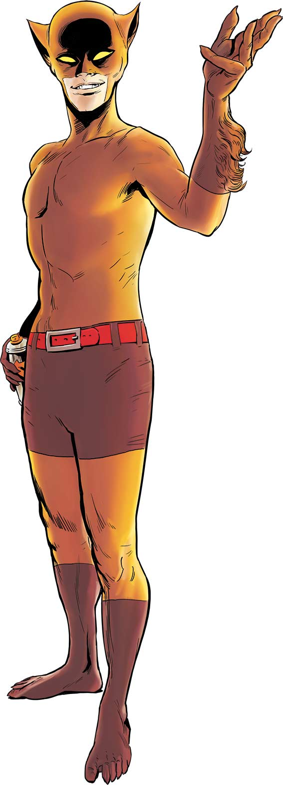 Drawing made to represent the character in a descriptive card edited in the third volume of the series.